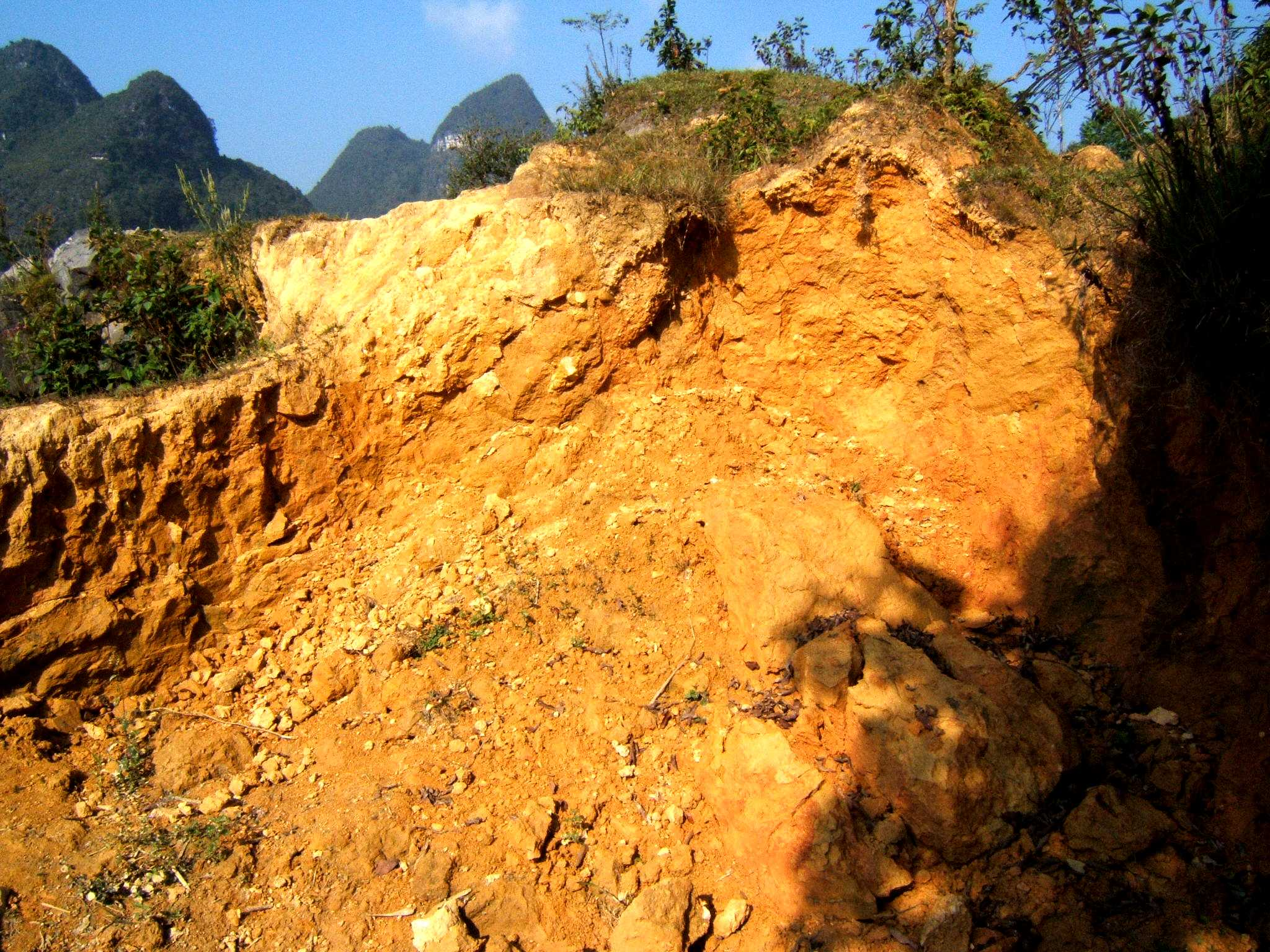 Eluvium on a hill top, Ha Giang province